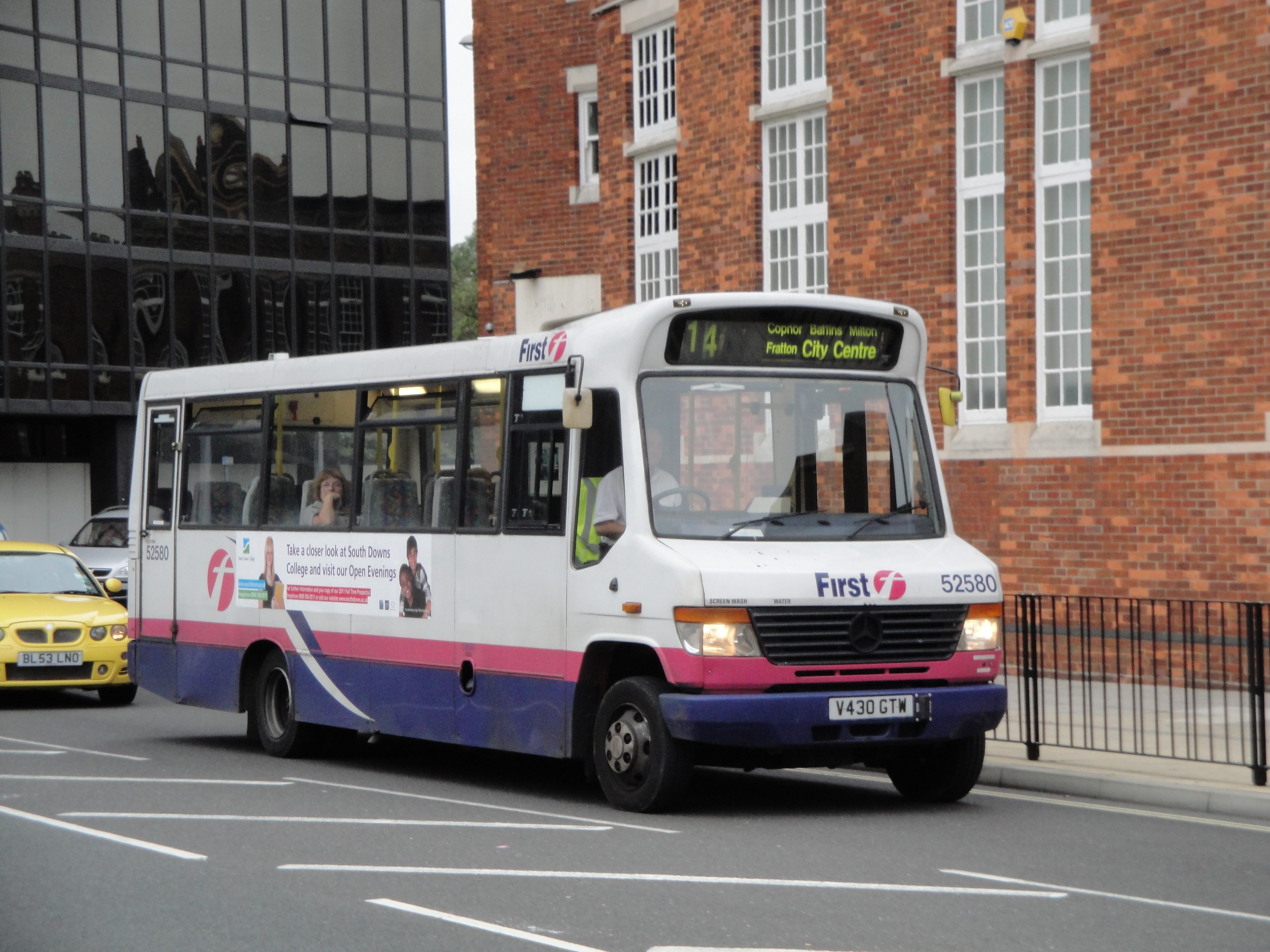 First Hampshire & Dorset 52580 (V430 GTW), a Mercedes-Benz Vario/Marshall Master, in Stanhope Road, Portsmouth, Hampshire on route 14.